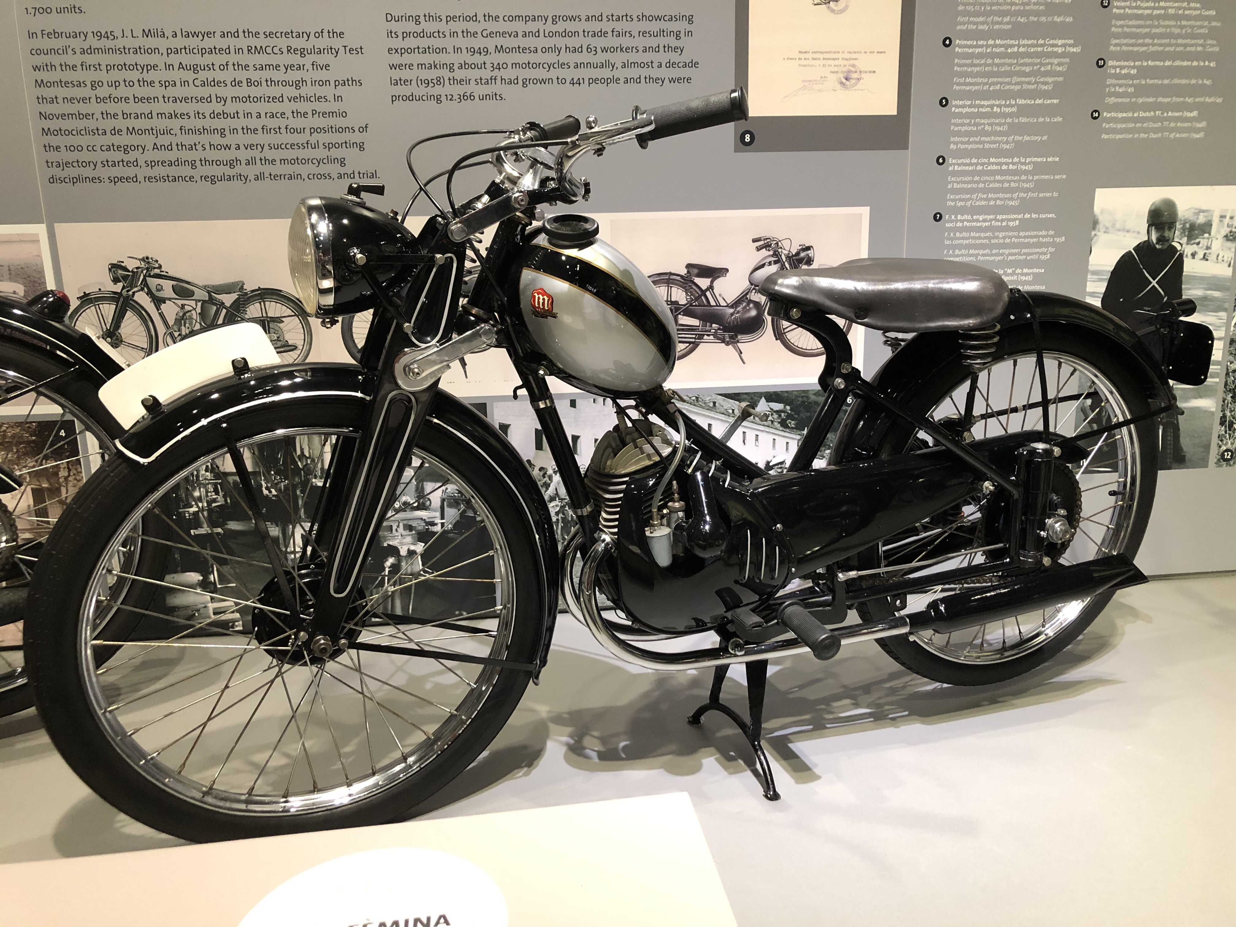 Montesa A45 Fèmina (1945), Mod. MB, 98 cc